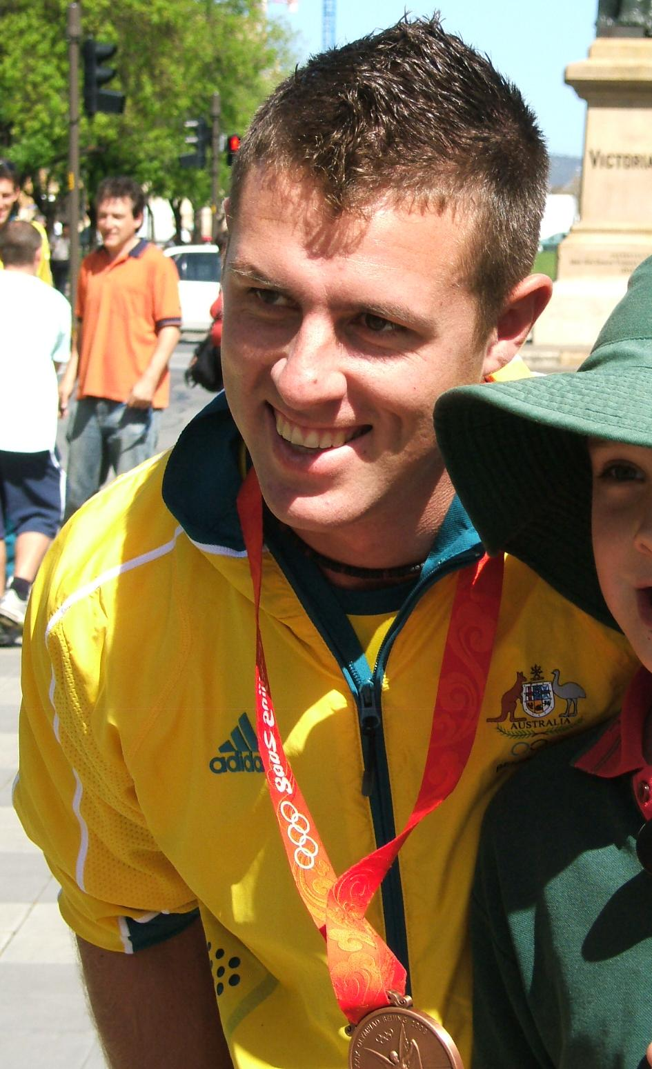 Grant Schubert at the 2008 Olympic homecoming parade in Adelaide